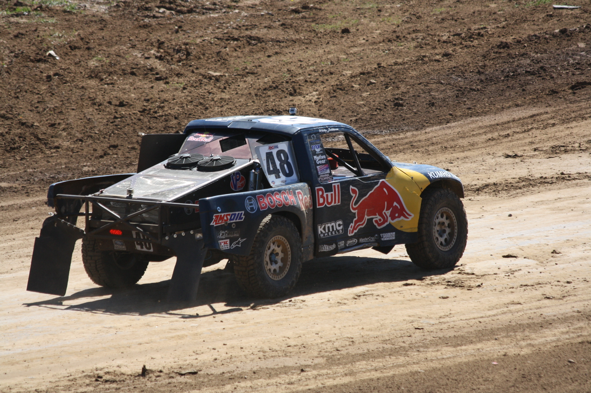 Ricky Johnson (racer) Trophy Truck at the 2010 Crandon International Off-Road Raceway.